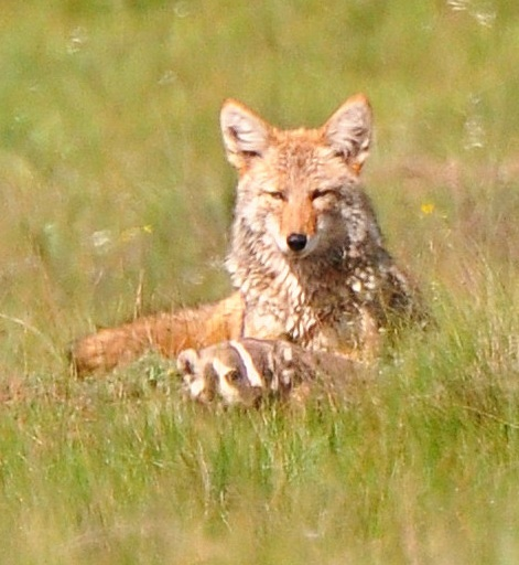 Coyote and badger at Valles Caldera.